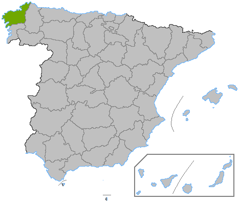 Location of the province of La Coruña, in Spain. Basado en: ProvPont.jpg Source: Designed by Satesclop. Original picture, designed by Sobreira.